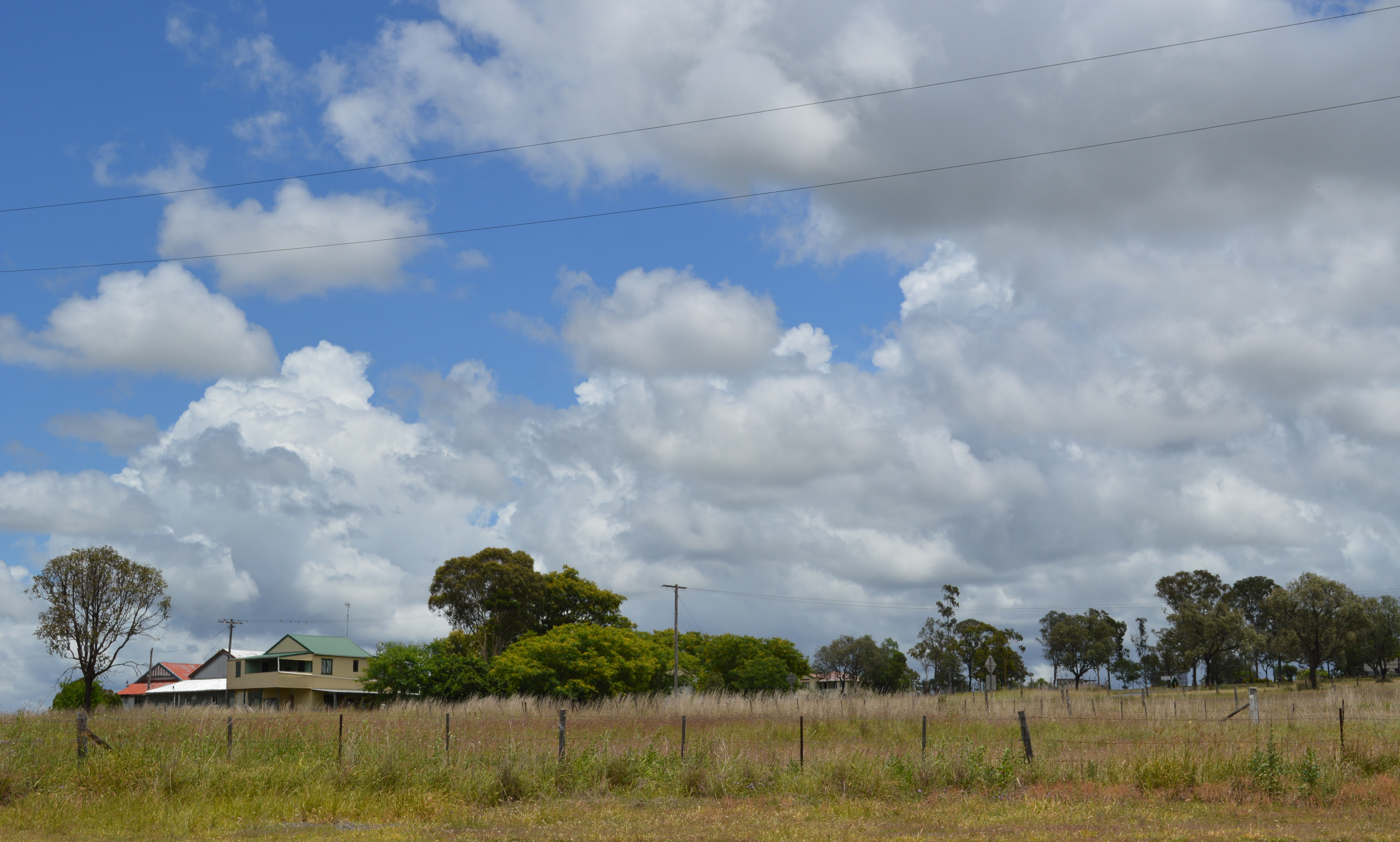 Bancroft, Queensland seen from the former railway line